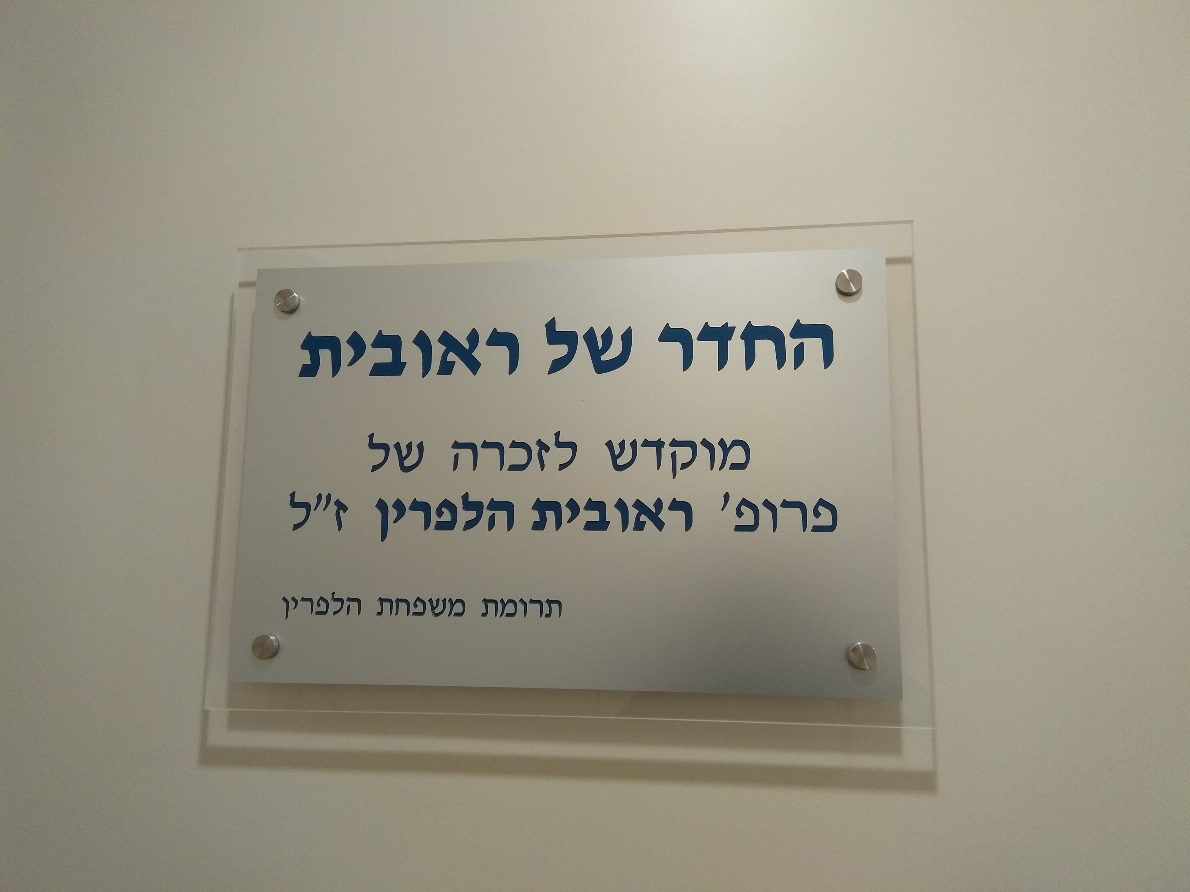 Plague near a room in Women's ward in Asaf Harofe Hospital